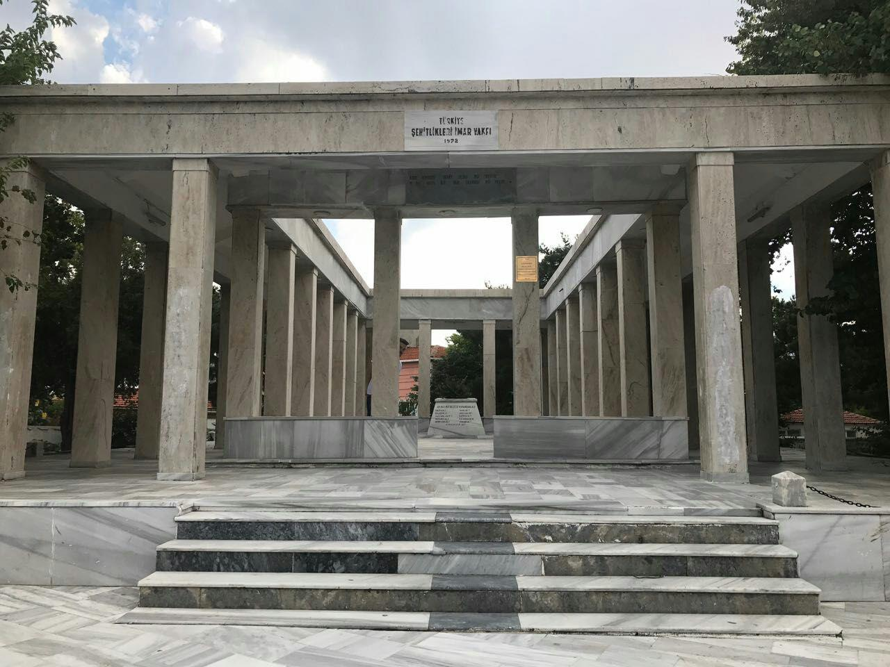 The Kırklar-Memorial in Kırklareli City, Turkey.